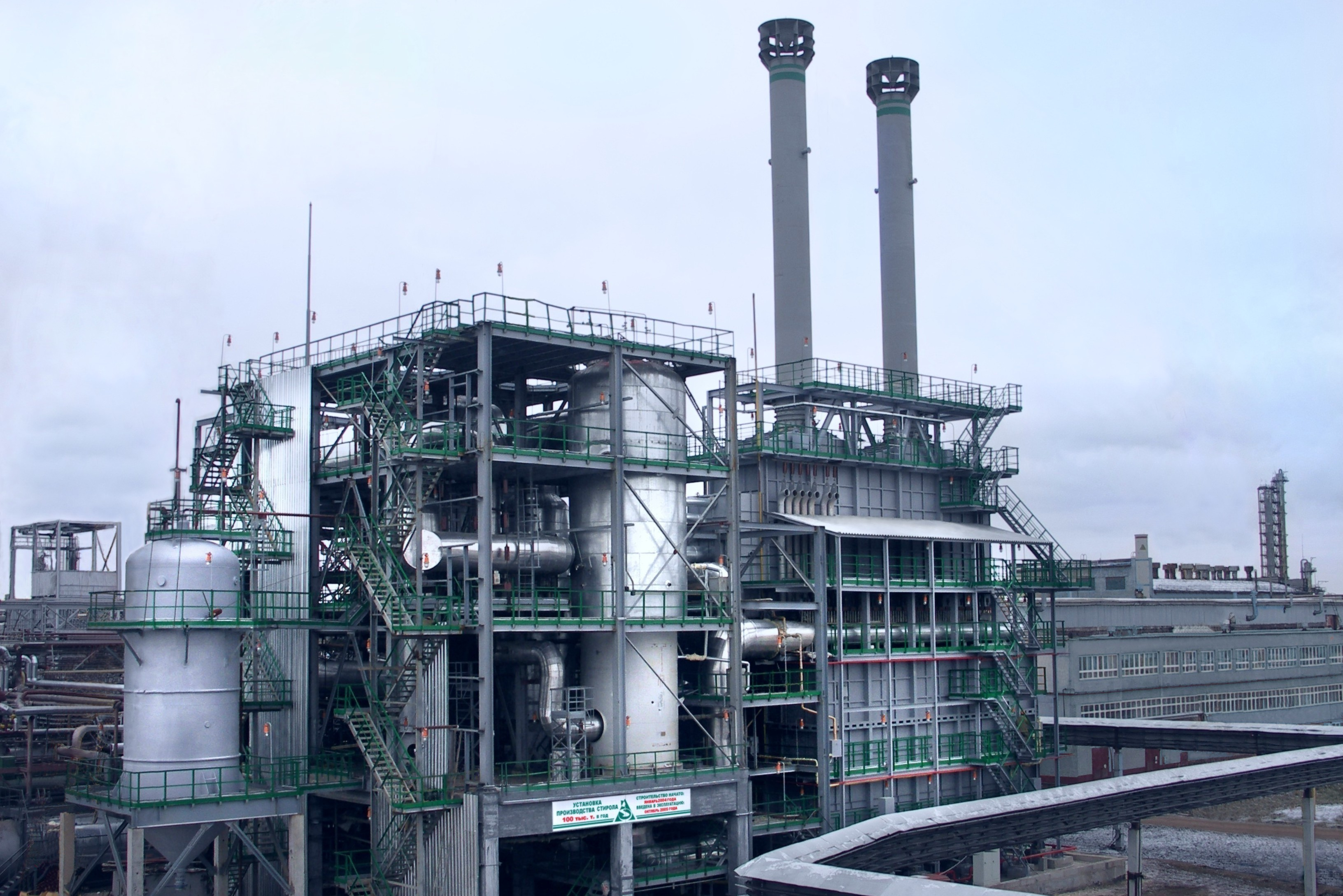 Production of 135, 000 tonnes of styrene annually. The new expandable styrene productions unit will produce 100, 000 tonnes annually.